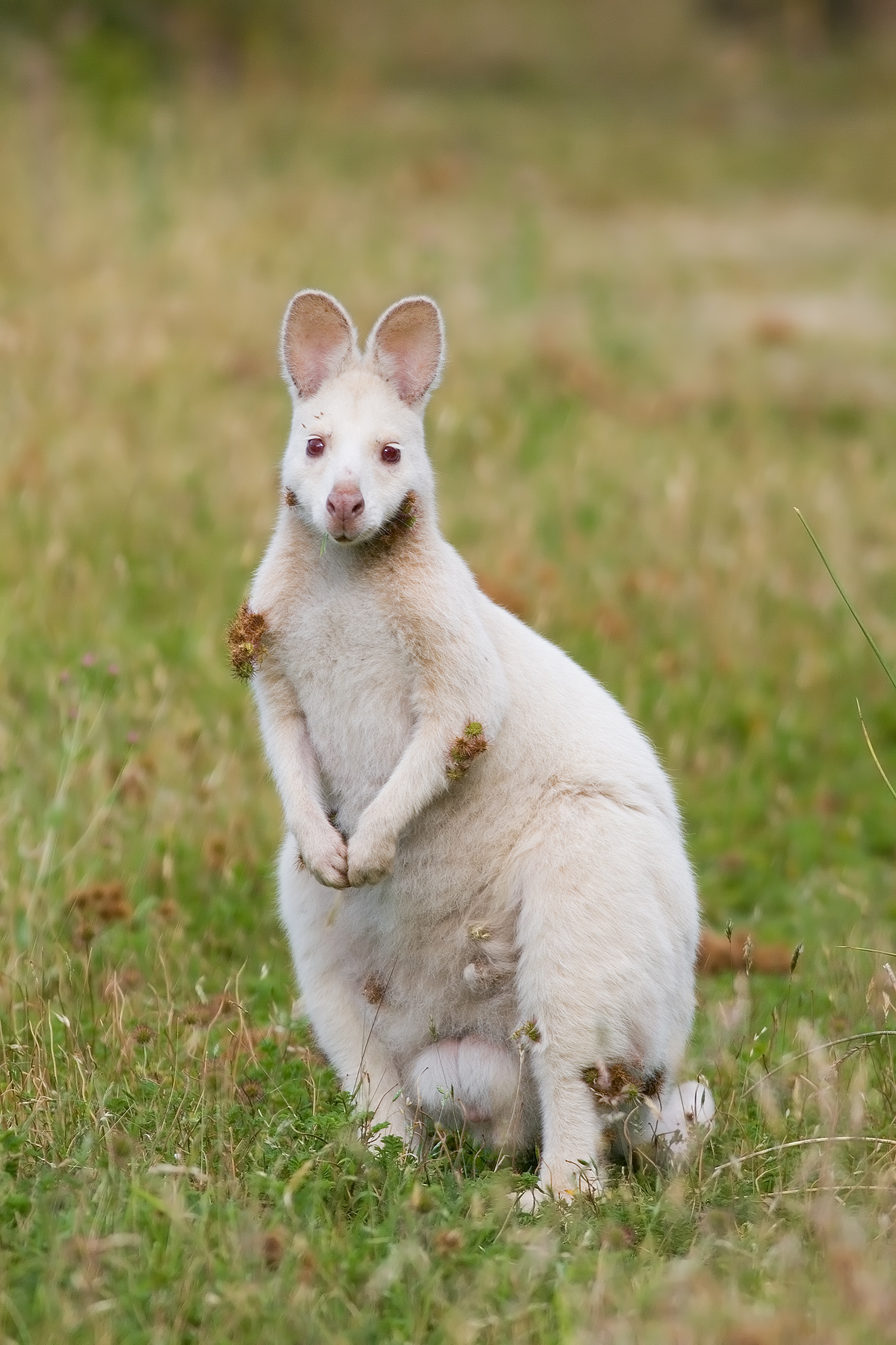 Albino Bennett's Wallaby (Macropus rufogriseus rufogriseus) on Bruny Island, Tasmania, Australia. Burs are stuck to his fur on the elbow, shoulder and chin.